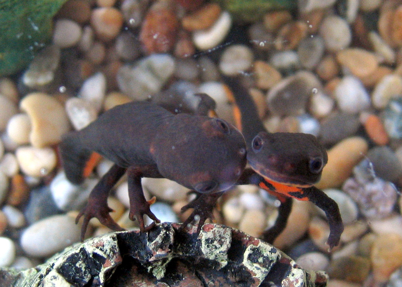 Two Chinese Fire Bellied Newts (Hypselotriton orientalis)